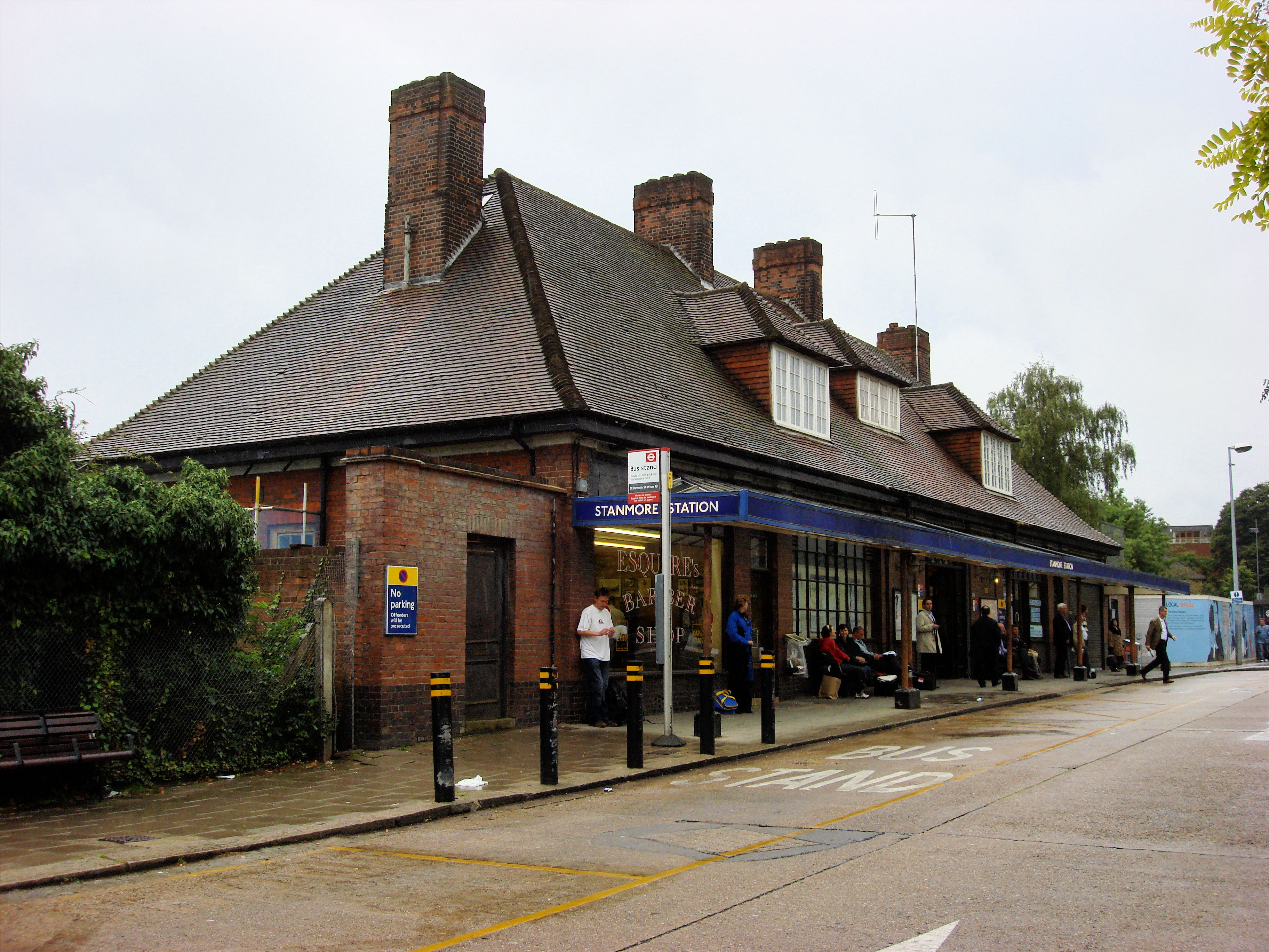 Stanmore tube station, main building